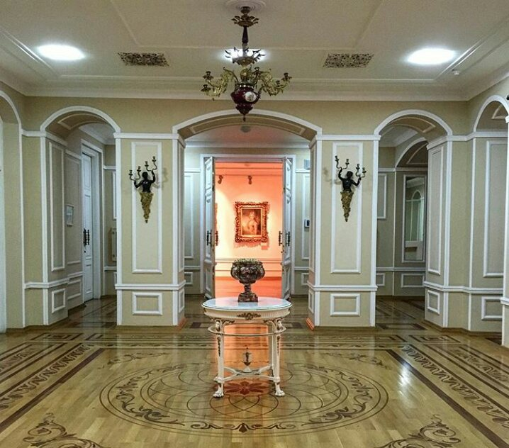 Muzey